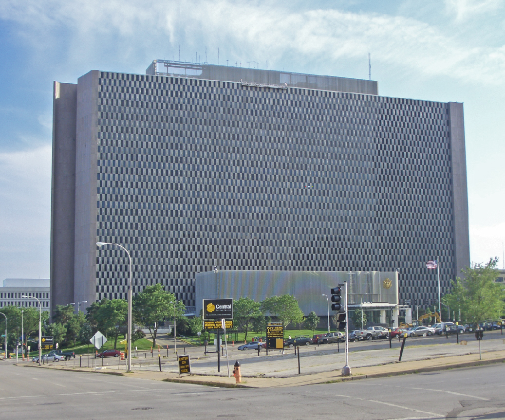 Richard Bolling Federal Building, 601 East 12th Street, Kansas City, Missouri